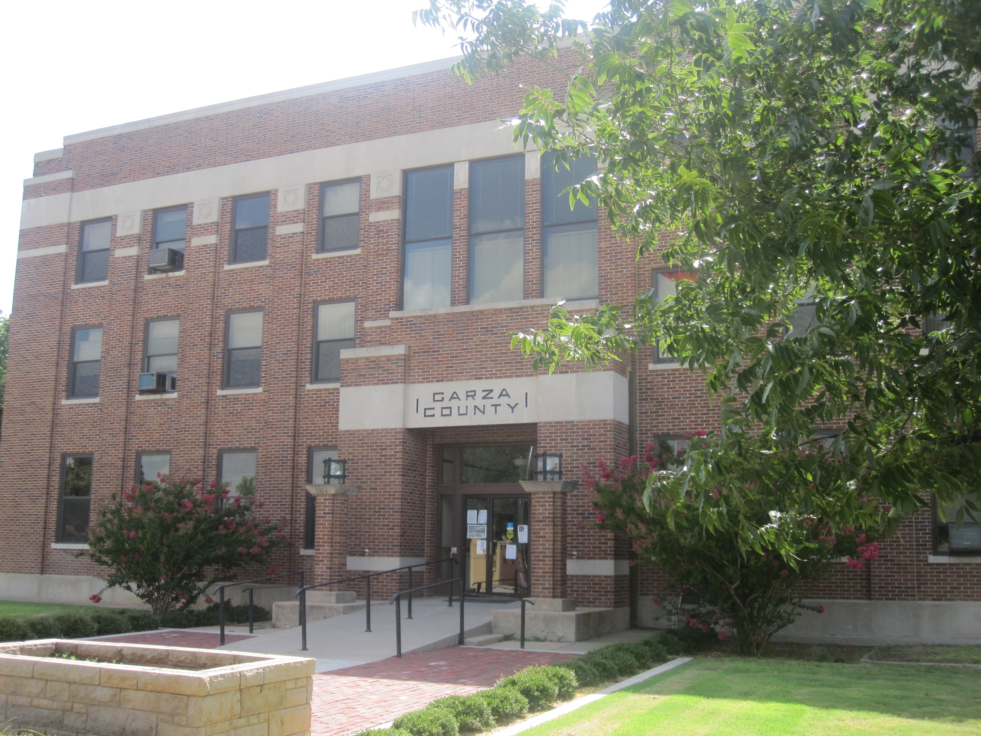 Garza County Courthouse. I took photo with Canon camera in Post, TX.